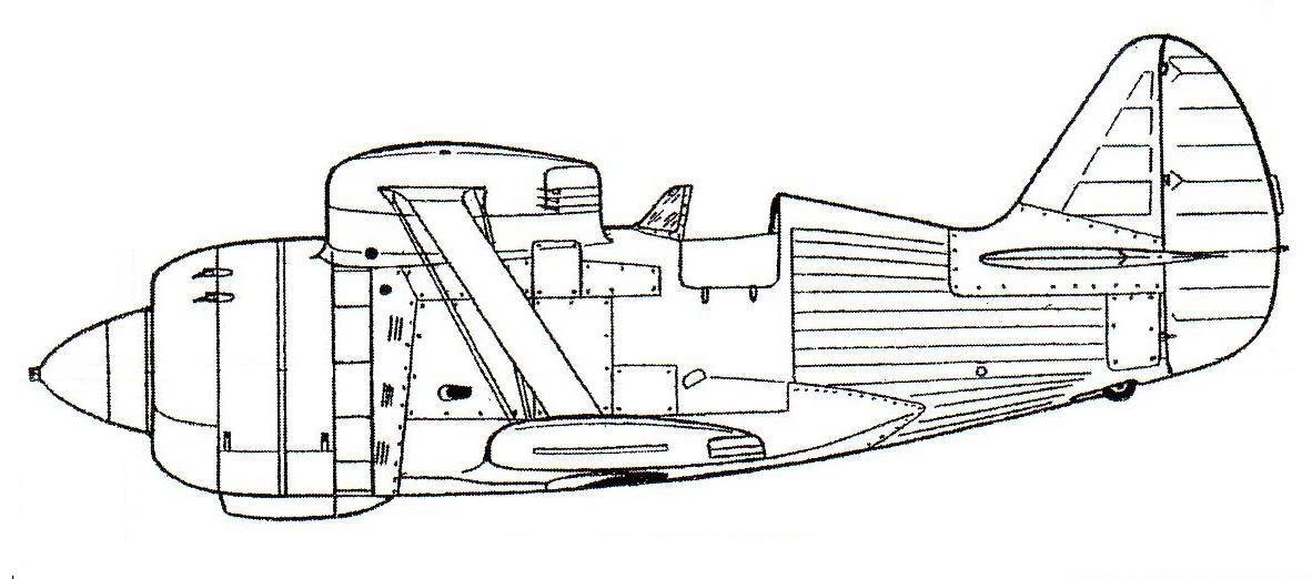 Figure I-190 aircraft with an engine M-88R.